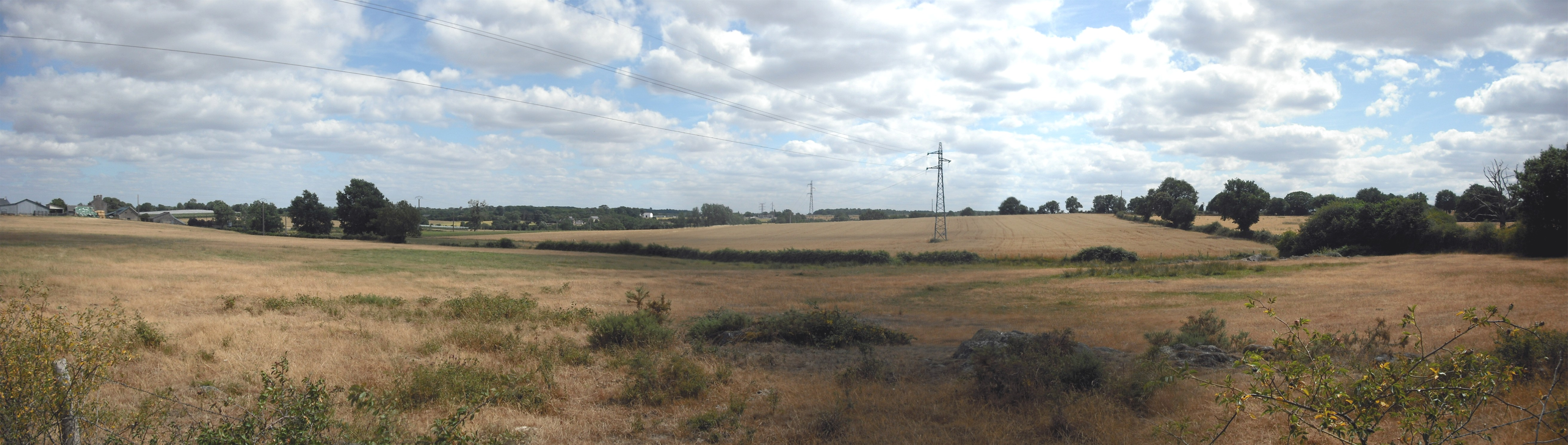 Landscape around Candé, Maine-et-Loire, France